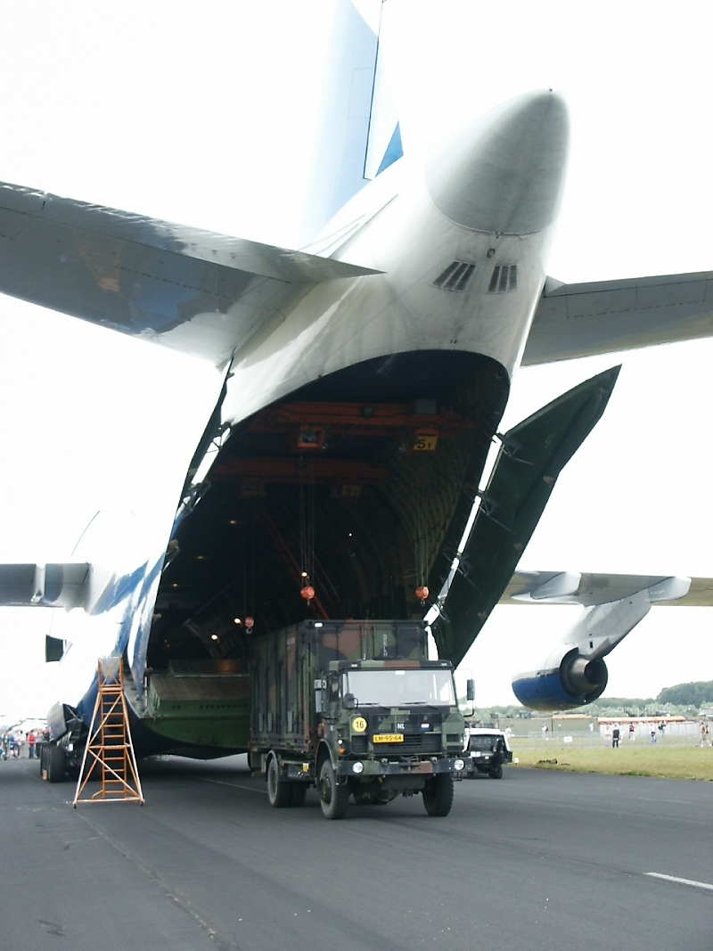 Container being lifted into the belly of an Antonov An-124 from a DAF YA 4440/4442 truck. Photo taken at Dutch airforce base Gilze-Rijen in 2005.